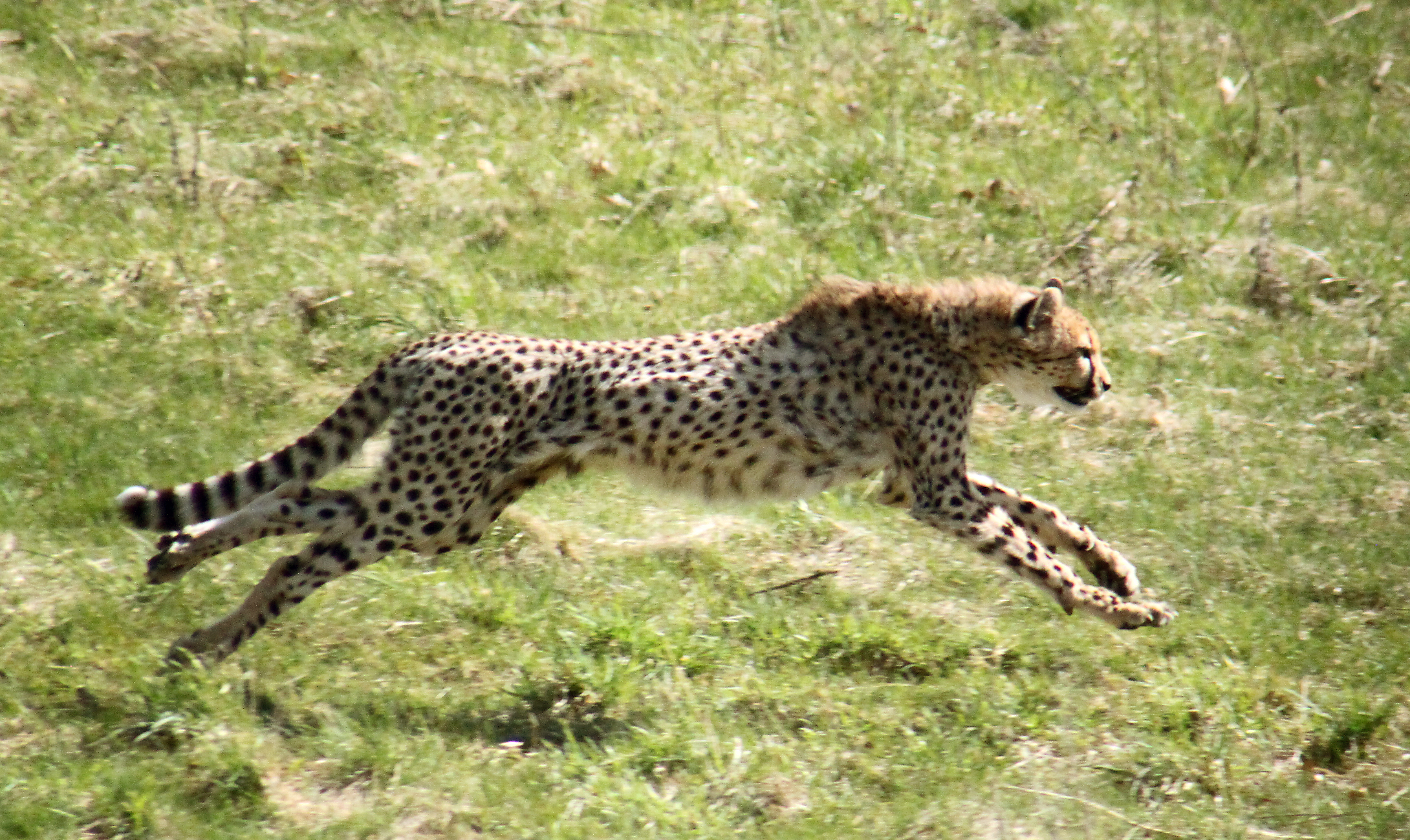 Cheetah chasing its prey. Captured at Ree Park - Ebeltoft Safari, Denmark.